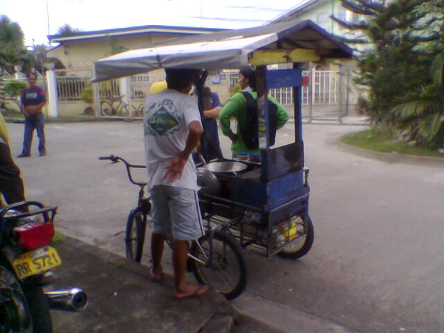 A man selling fishballs at a street in Angeles City. Taken by mobile phone.